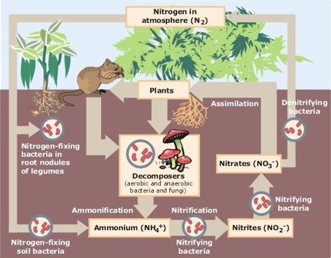 Diagram of nitrogen cycle